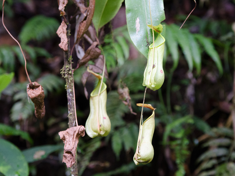 Nepenthes distillatoria in Sinharaja Forest Reserve, Sri Lanka